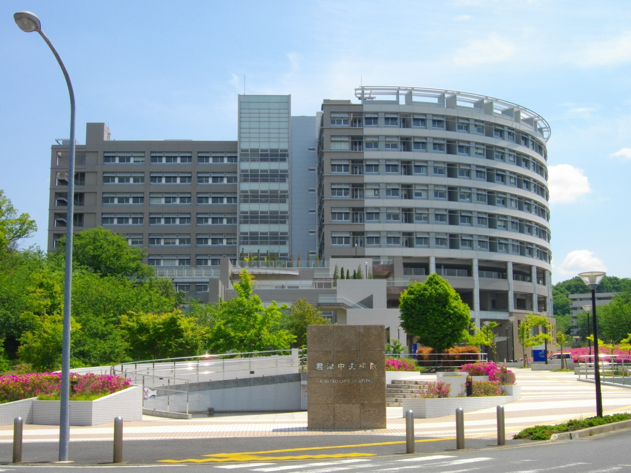 Kimitsu Chuo Hospital